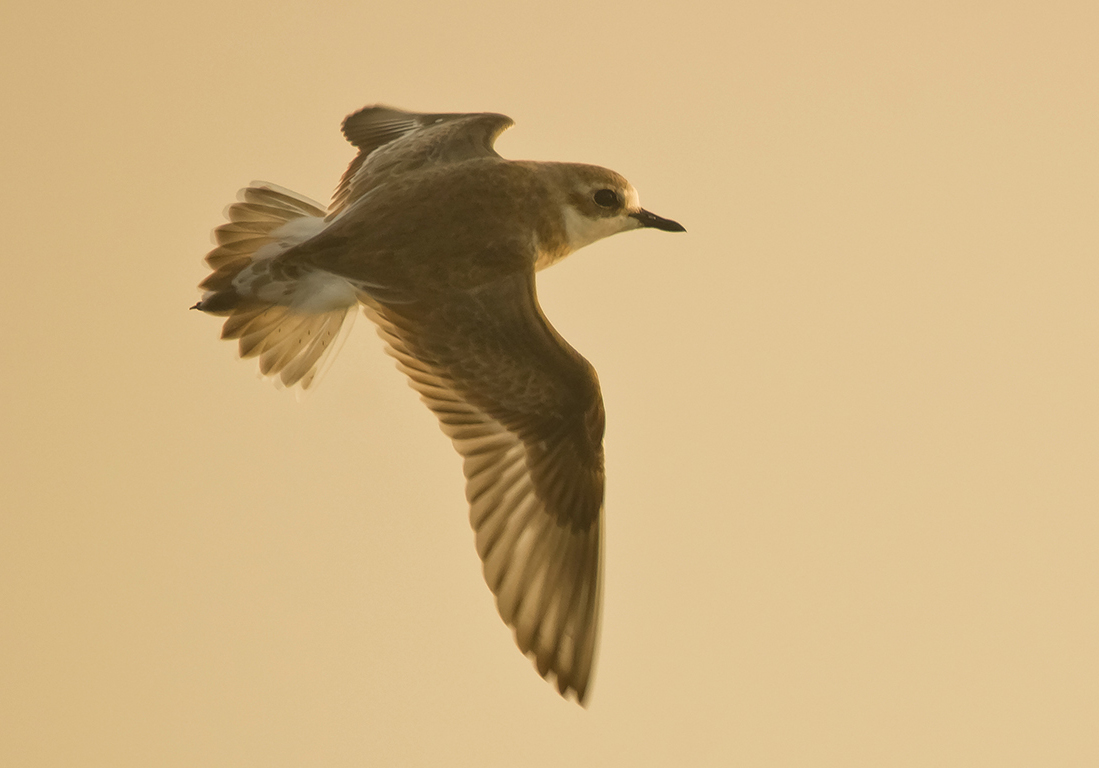 Silhouette